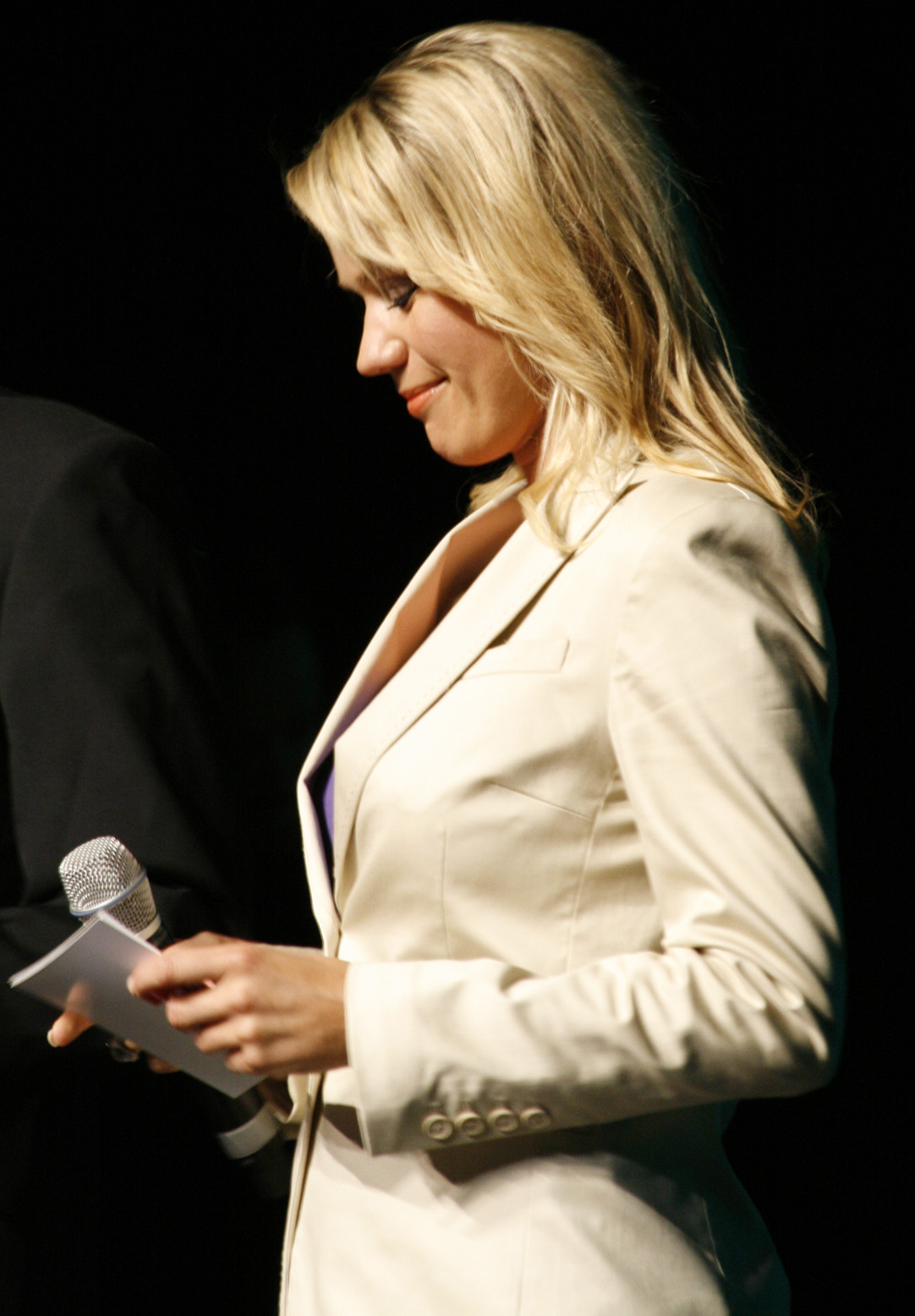 Austrian presenter Johanna Setzer at the kick-off event of the Social Democratic Party of Austria for the campaign for the legislative election 2008.